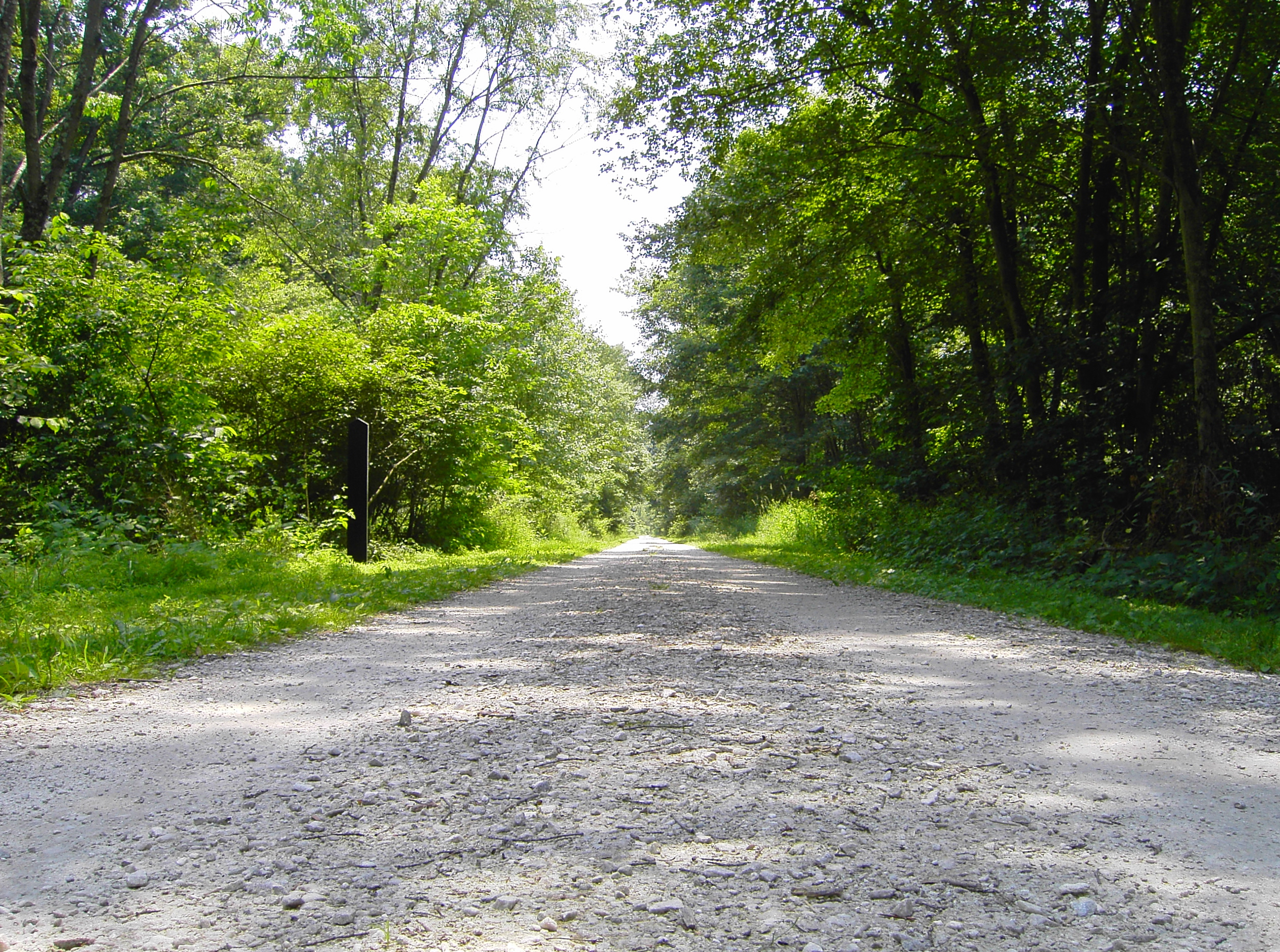 NCR Trailbed